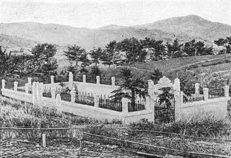 Possibly located at Sakamoto International Cemetery in Nagasaki